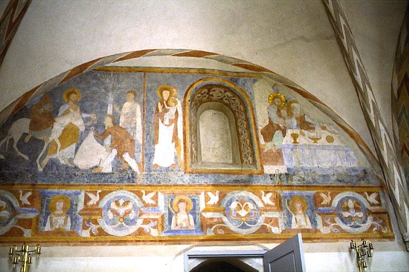 Jørlunde Kirke (church)